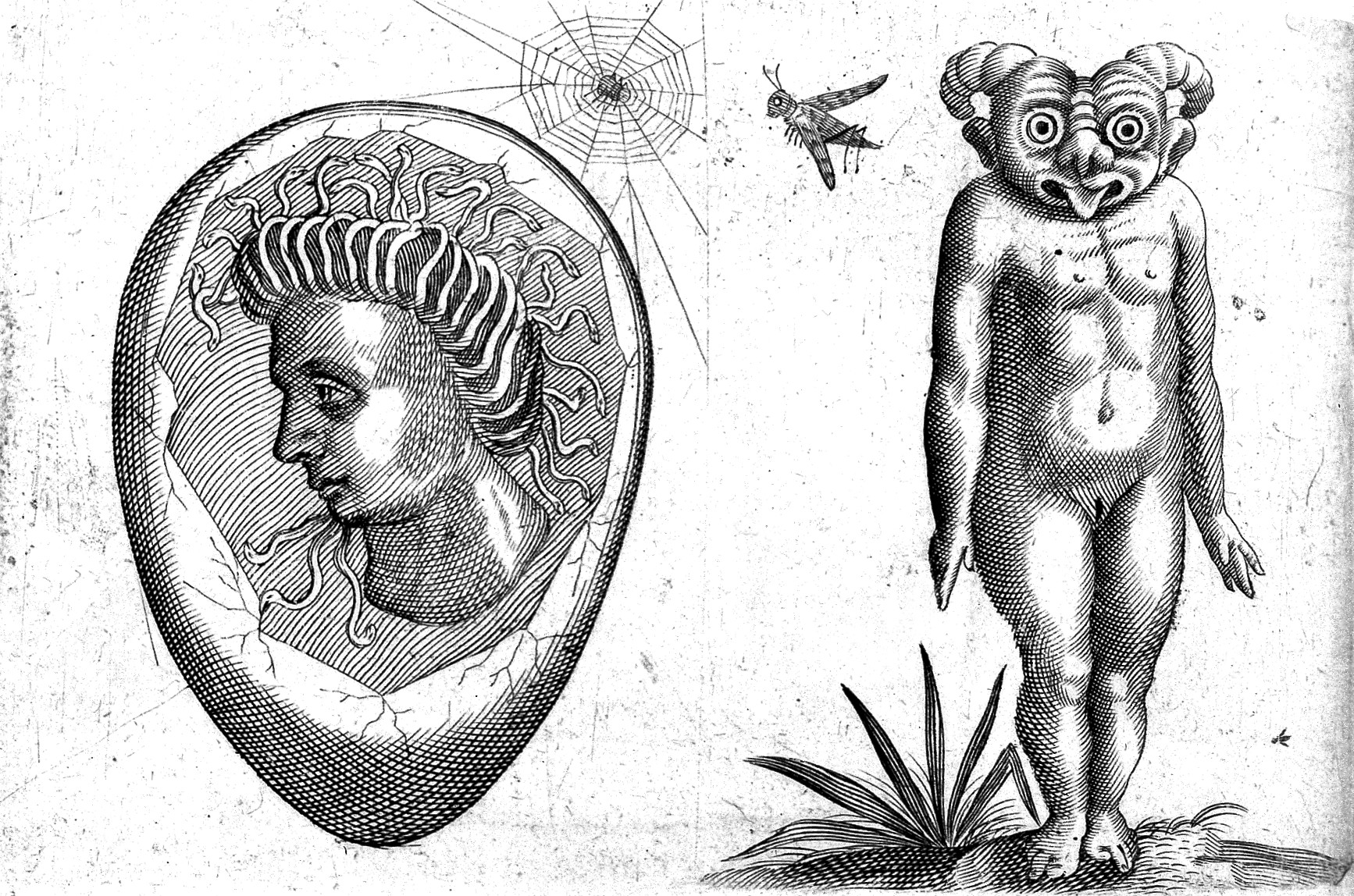 Monstruous bodies. Rare Books Keywords: Abnormalities; Fortunius Licetus